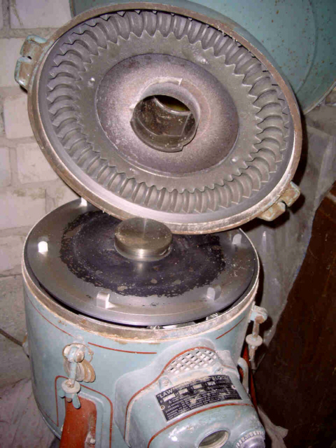 flour mill